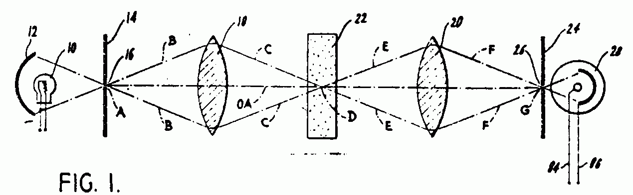 Optical path of a transmission confocal microscope, as patented by Marvin Minsky in 1957. Figure 1 of the patent